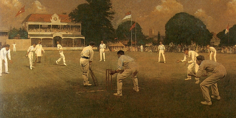 Kent Versus Lancashire; the figures depicted are from the left to the right: Humphreys at silly mid-on; Dillon in the distance in front of the sightscreen; non-striking batsman Findlay; umpire Atfield; bowler Blythe; batsman on strike Tyldesley; Blaker at mid-off; wicketkeeper Huish; Hutchings on the boundary at deep extra cover; Marsham at cover; Fielder at silly point; Mason at first slip; Burnup at point; Seymour at gully